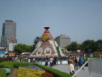 Hiroshima Flower Festival From ja.wikipedia